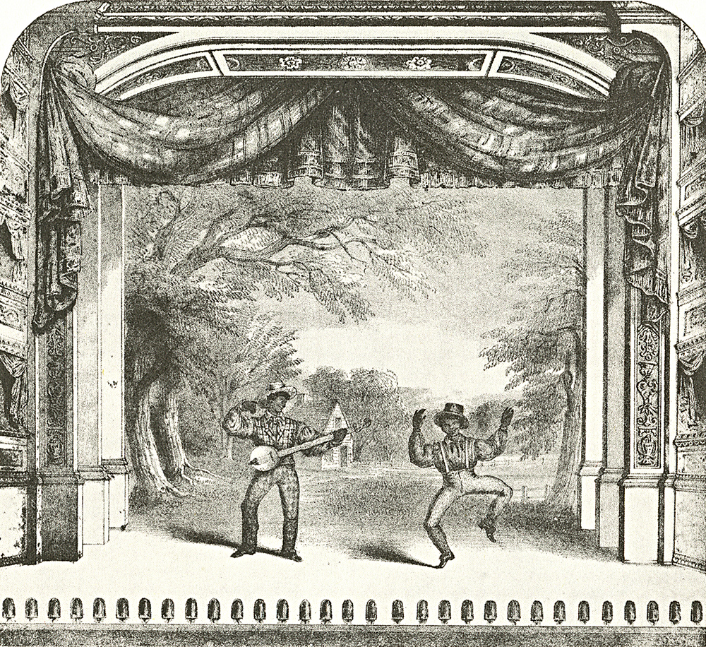 Detail from sheet music cover of Whitlock's Collection of Ethiopian Melodies, 1846. Whitlock is playing banjo, and his partner is either Frank or John Diamond.